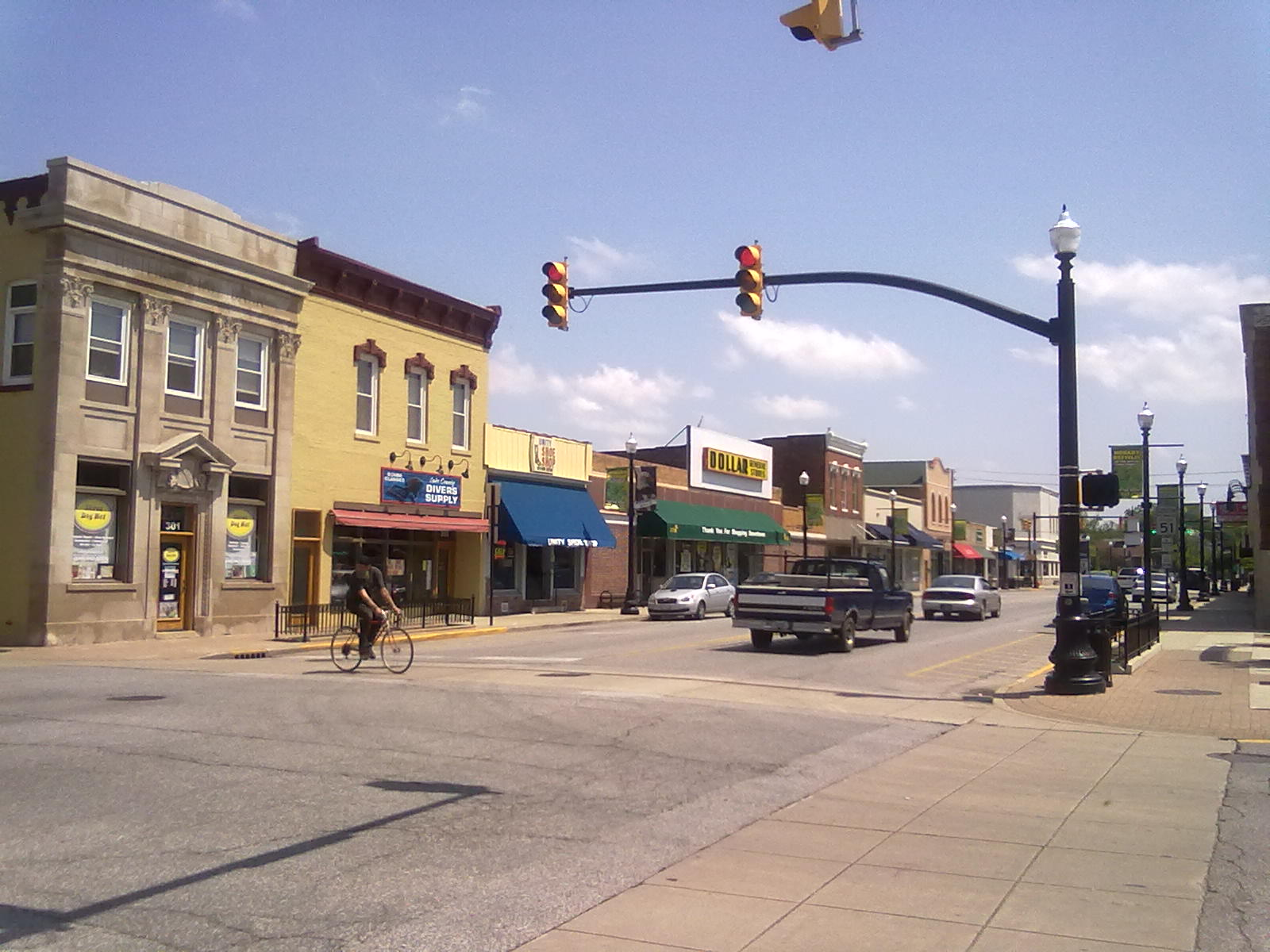 Main in downtown Hobart, Indiana, looking southeast